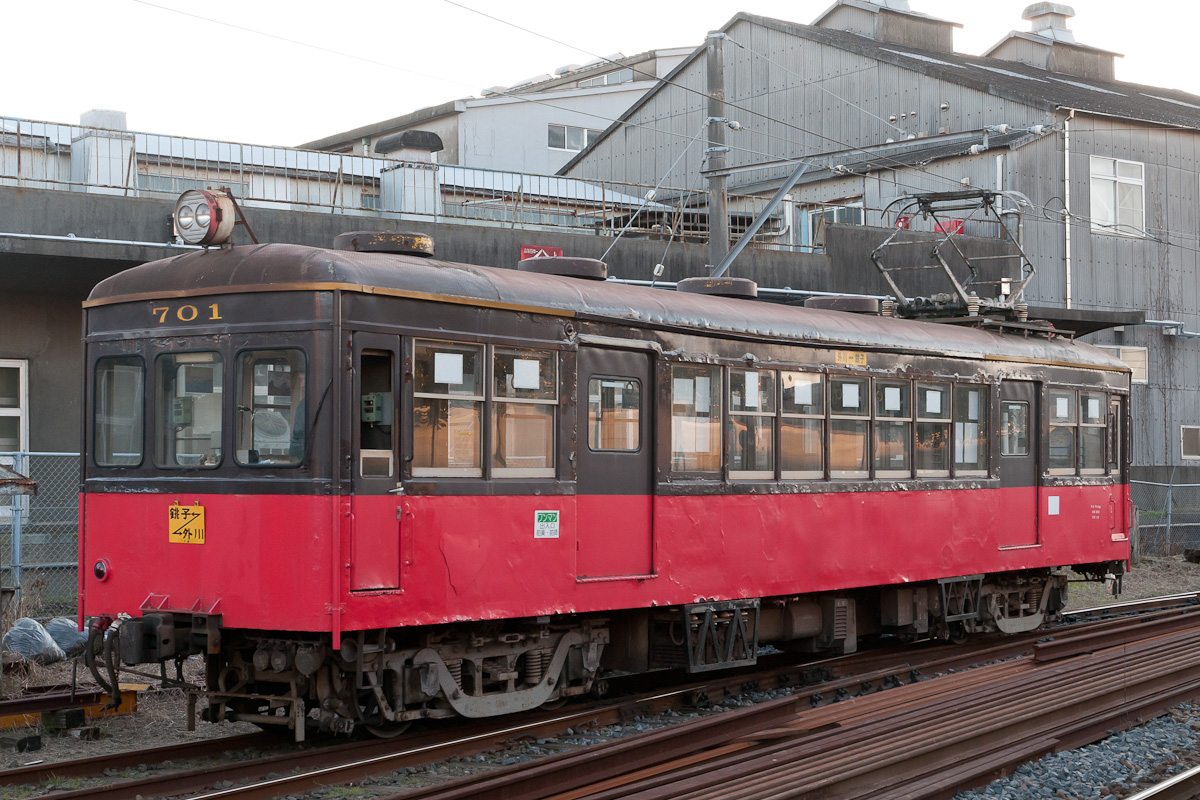 Choshi Electric Railway 700 series EMU car DeHa 701 at Nakanocho Depot